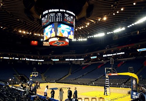 Inside Oracle Arena after the completion of a Golden State Warriors basketball game. This photograph was taken with an Olympus E-510 DSLR camera and edited (for color balance, rotation) using ArcSoft Photostudio 5.5